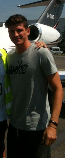 Mario Gómez on arrival in Florence